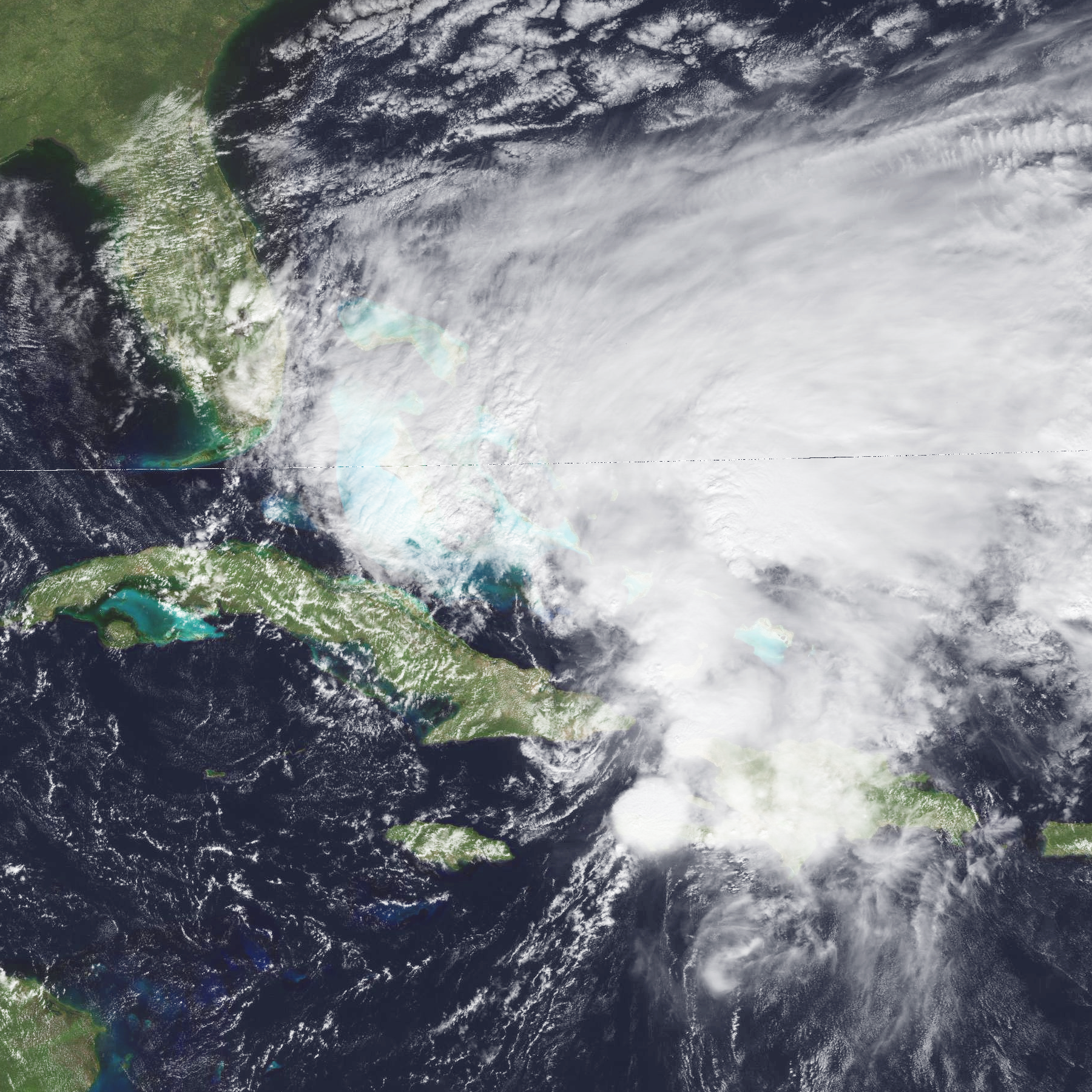 Tropical Storm Gordon over the Bahamas on November 13, 1994